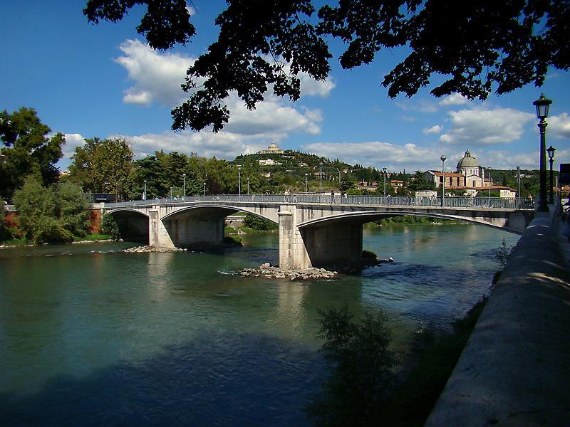 Giuseppe Garibaldi Bridge (Ponte Garibaldi), Verona, Veneto, Italy. The landmarks are the church of San Giorgio in Braida on the shore of the Adige river, and the Nostra Signora di Lourdes Sanctuary at the hilltop.